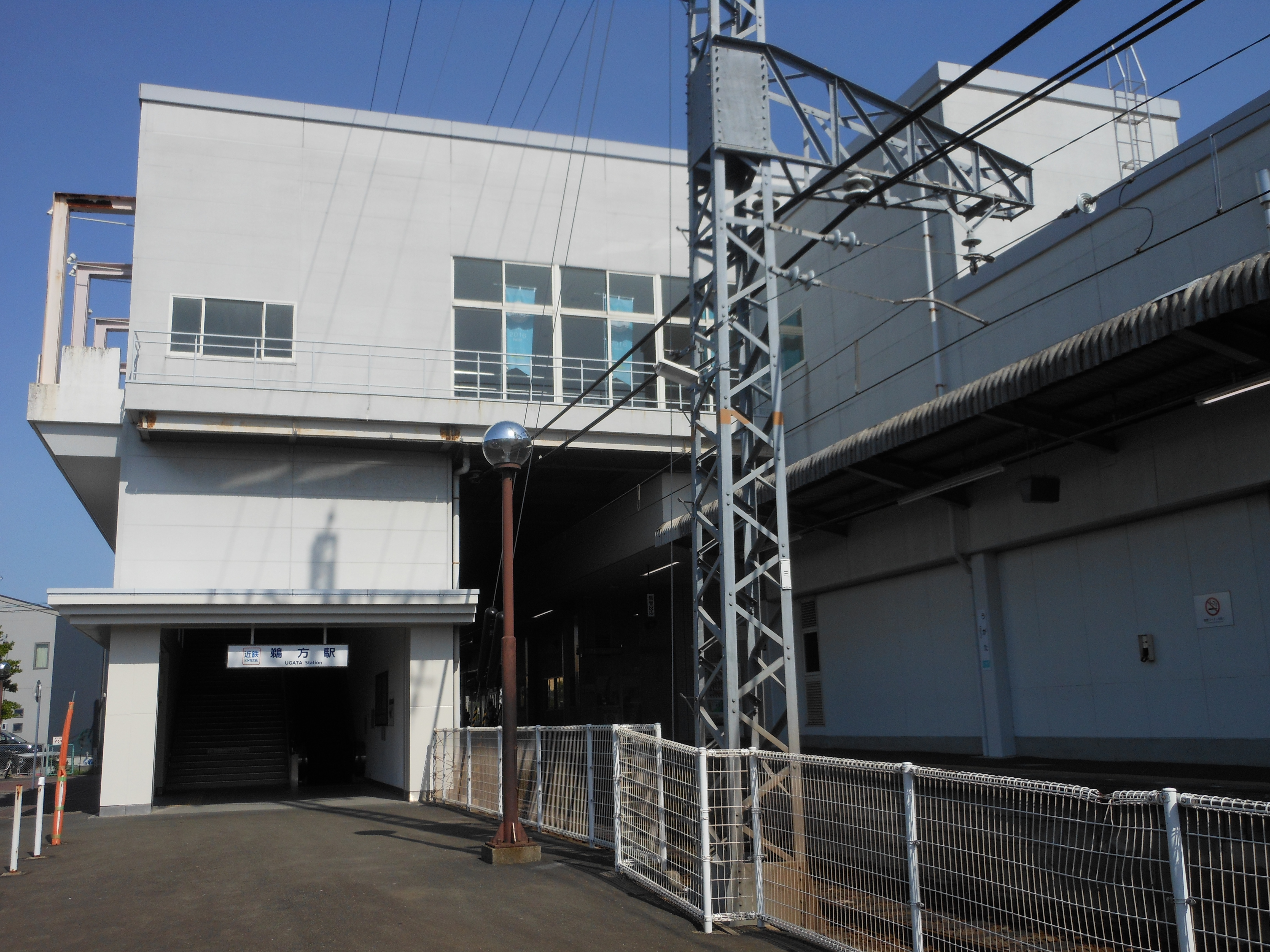 This is the north exit of Kintetsu Shima line Ugata station in Shima, Mie, Japan.